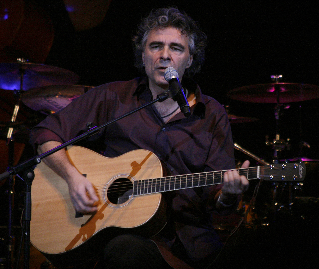 Austrian musician Andy Baum; charity concert 'atemberaubend 08' in support of researching pulmonary hypertension (lungenhochdruck.at) at the Wiener Stadthalle.